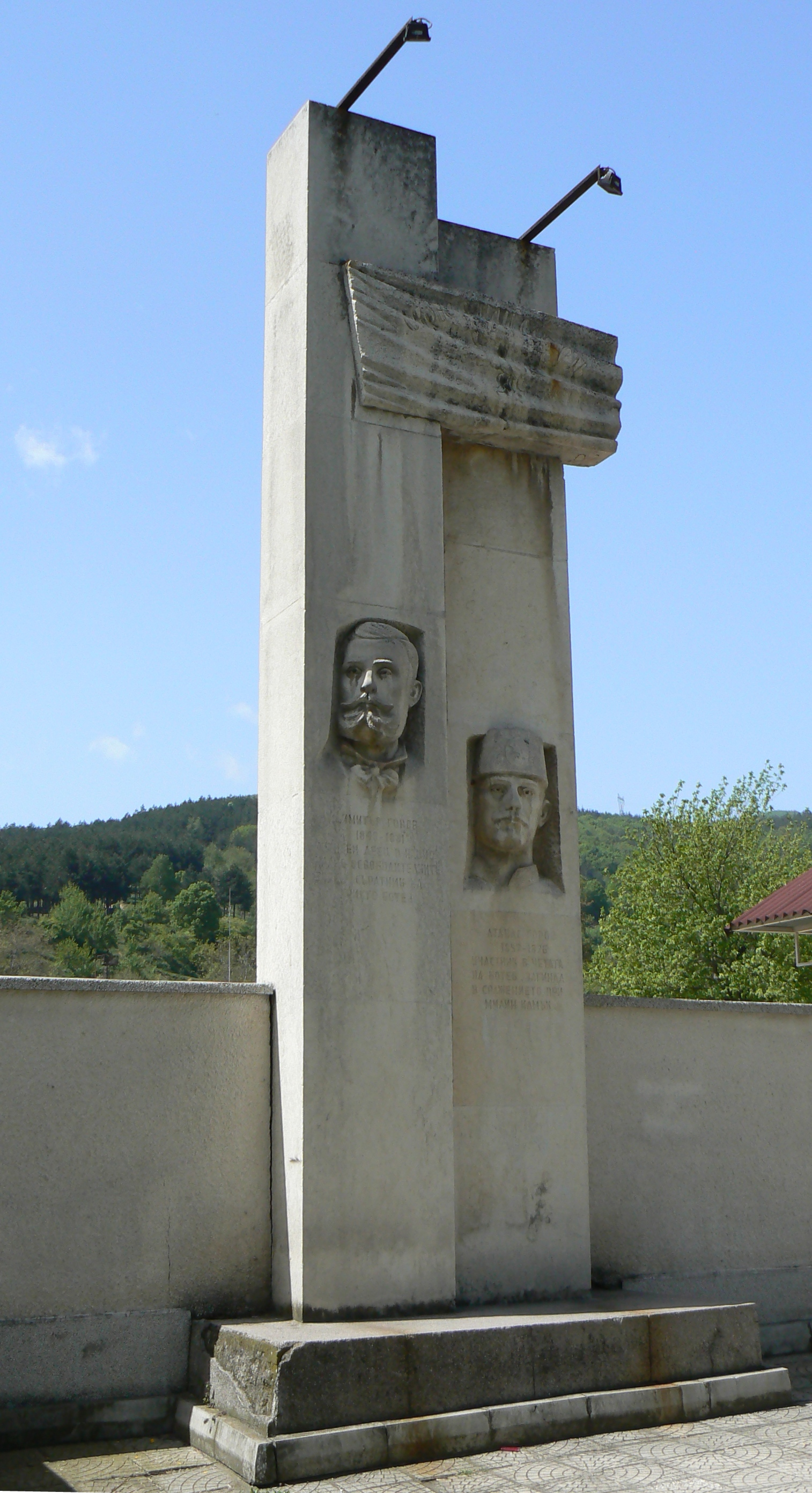 Monument of Bulgarian revolutionists Dimitar Gorov and Atanas Gorov, Peshtera, Bulgaria